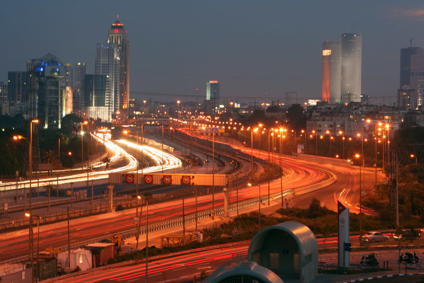 Ayalon Highway and Tel Aviv - Ramat Gan skyline Beivushtang 08:58, 16 November 2006 (UTC) Category:Images of Tel Aviv